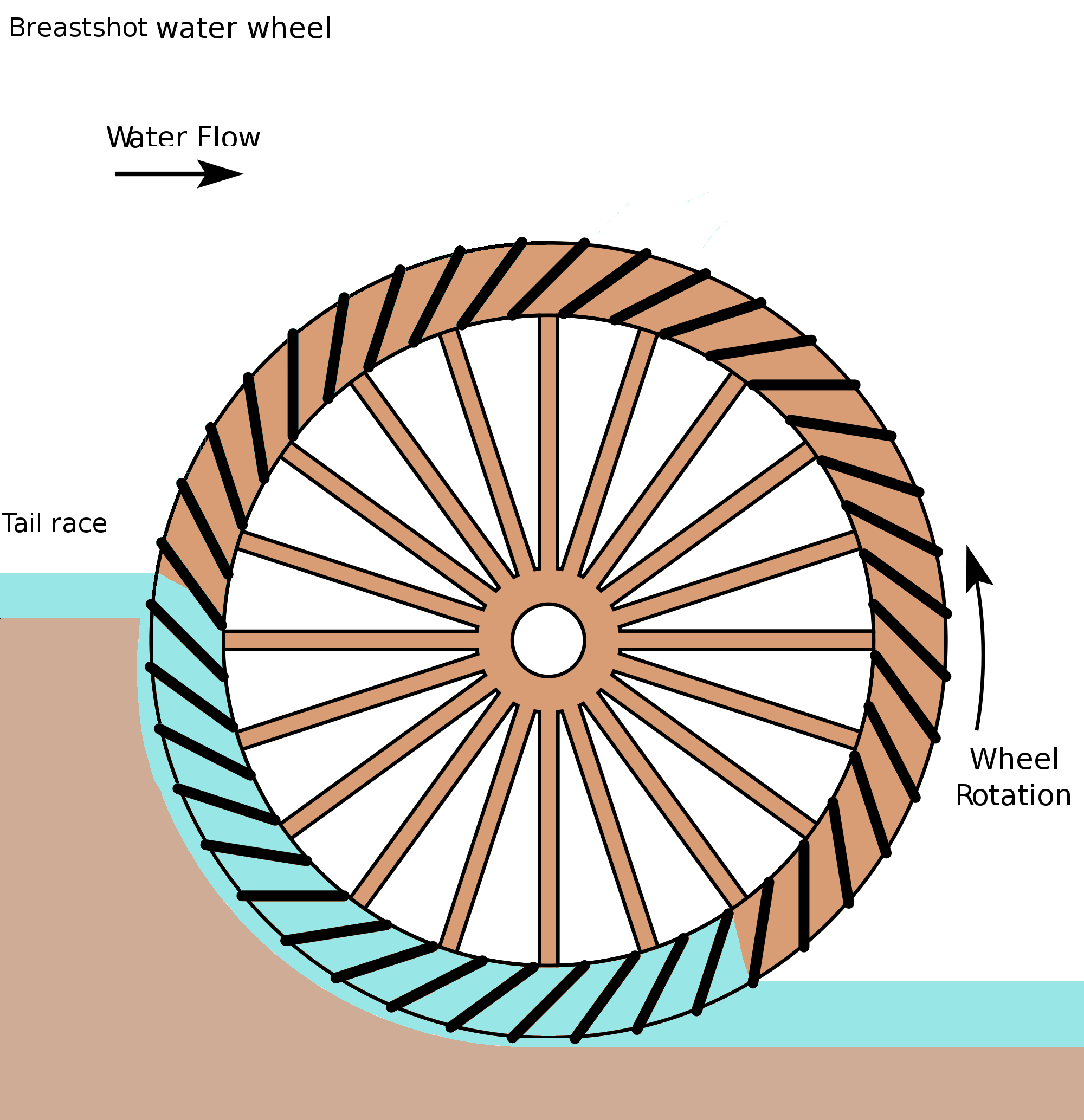 A schematic of a breastshot waterwheel. The image was based on an image seen at and on the overshot water wheel schematic uploaded by DanMS, with the artwork from Daniel M. Short